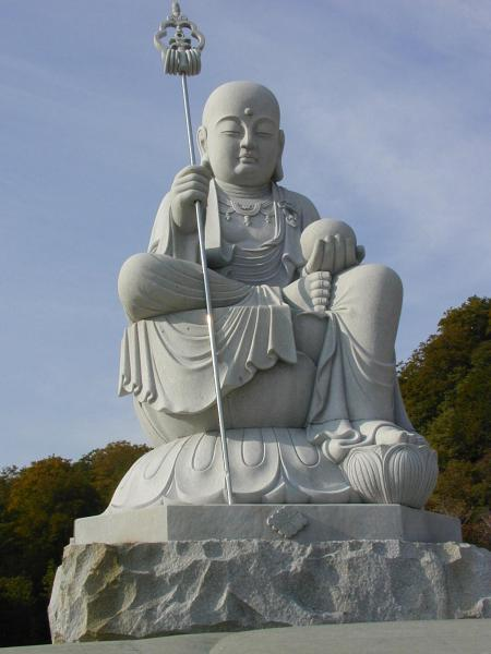 Statue of Jizo in Osorezan, Japan -- by Jpatokal